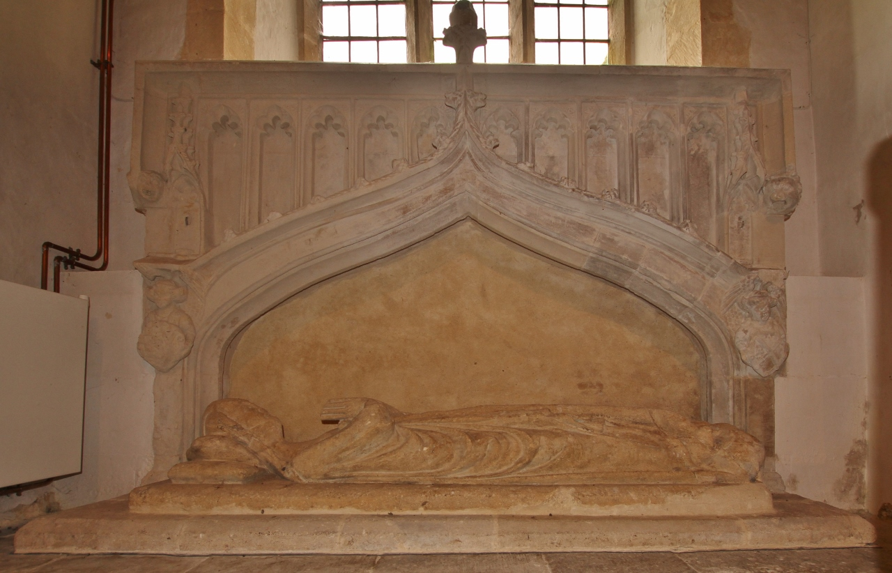 Canopied recess at the east end of the north aisle of St Mary's parish church, Hampton Poyle, Oxfordshire. It contains a 14th-century effigy of a lady. Flanking the canopy are demi-figures of angels bearing the arms of Poyle (right) and another family (possibly Elmerugg) impaling Poyle (left).